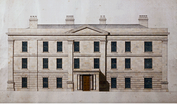 Harpton Court, Radnorshire. Elegant, ashlar faced house set in open countryside between New Radnor and Walton was the best of Radnorshire's neo-classical houses. The north elevation dated from 1750 whilst the south may have been the work of John Nash ca. 1805 - 12 who replanned the interior. The house was sold in 1953 and partially demolished in 1956.